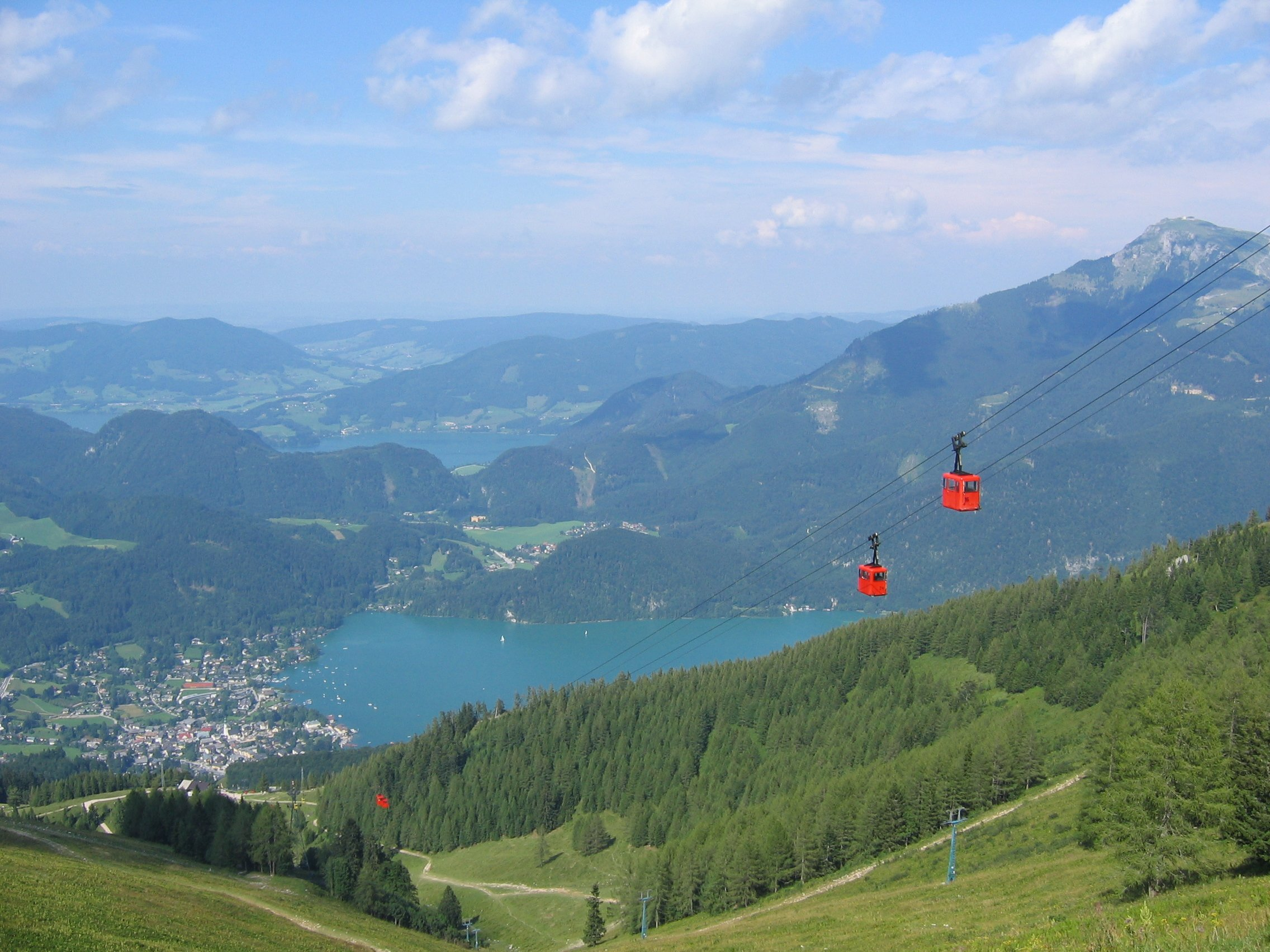 Austria: View from the Zwölferhorn to the Lake Wolfgang